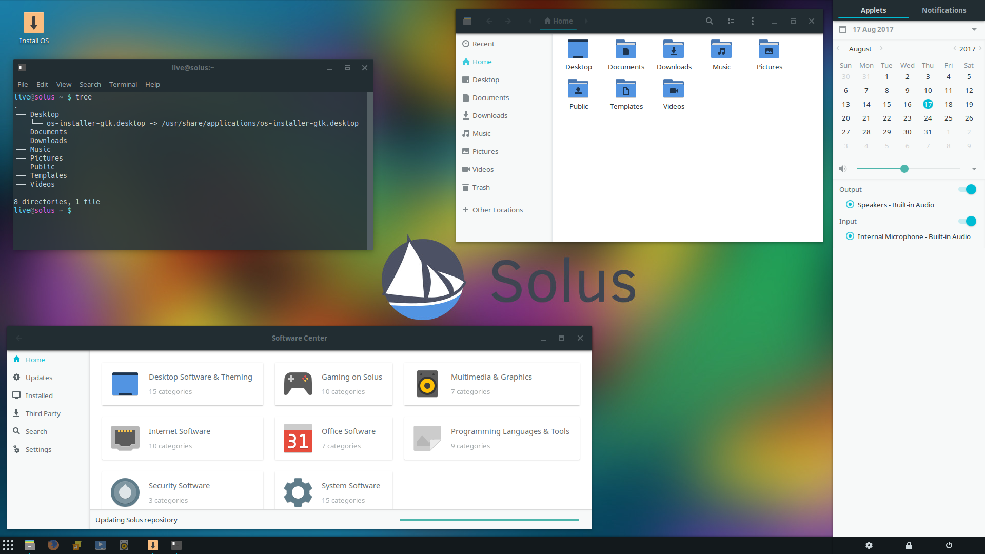 Solus 3 Budgie Desktop Screenshot